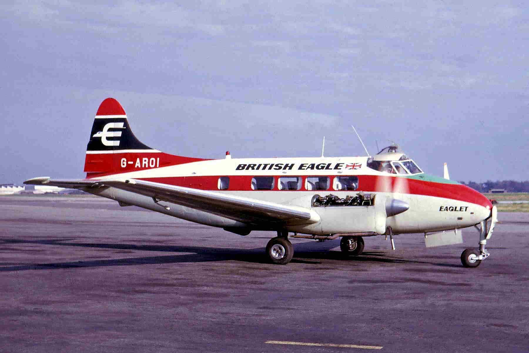 'Eaglet' was at Liverpool (LPL) for maintenance and usually operated a feeder service Dundee (DND) / Glasgow (GLA) to connect with Glasgow / London-Heathrow (LHR) services